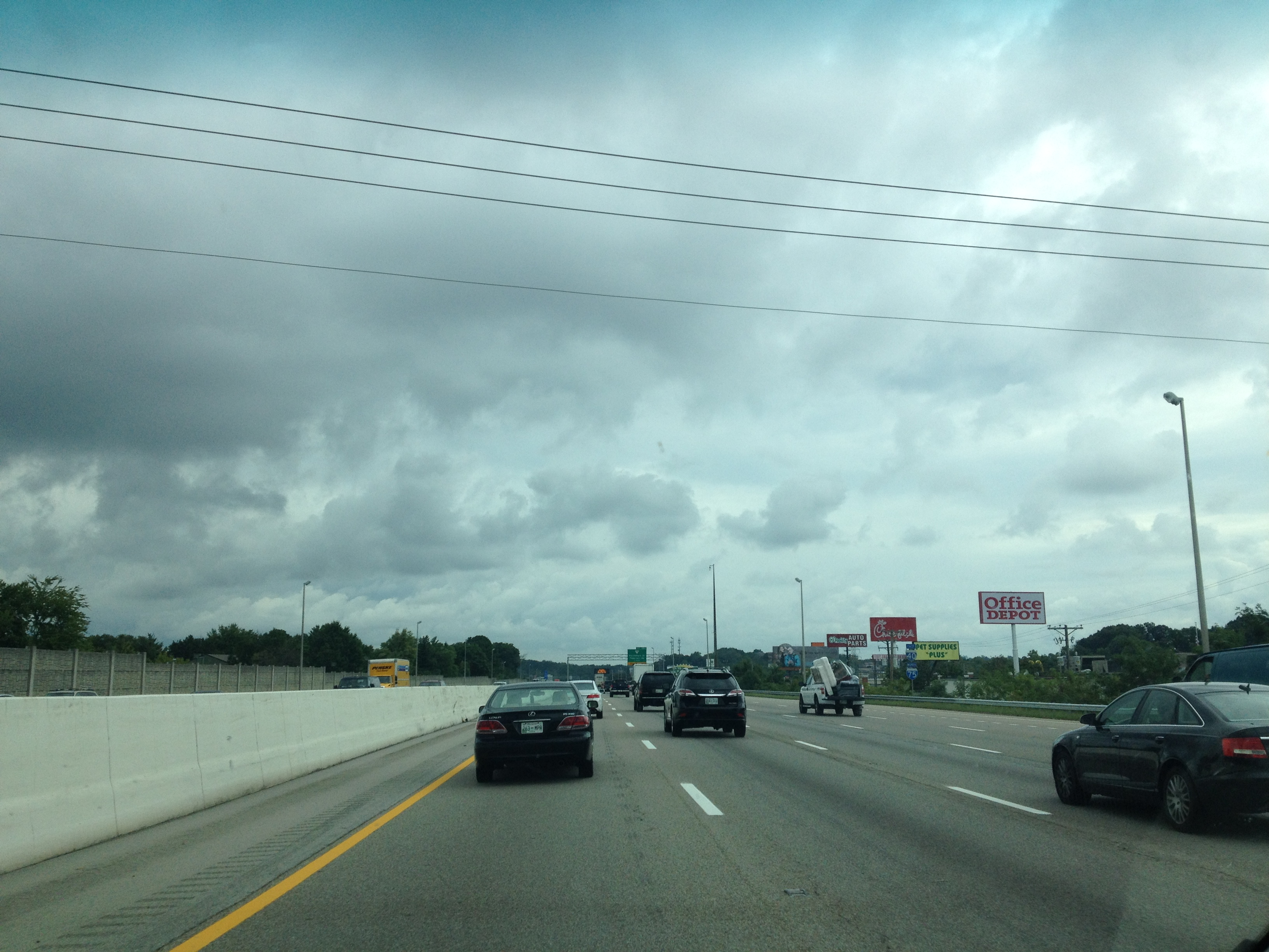 Eastbound Interstate 40/northbound Interstate 75 1 mile from the interchange with Tennessee State Route 332 (exit 383) in Knoxville, Tennessee